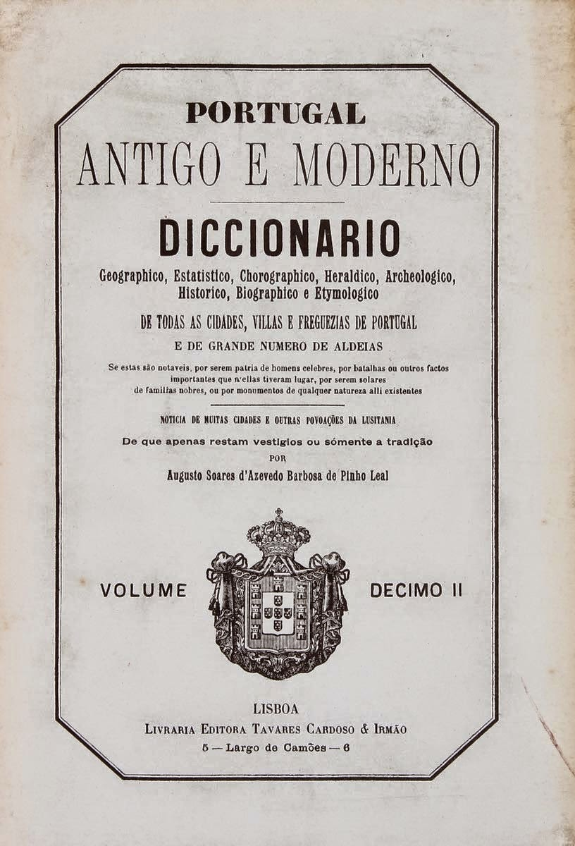 Portugal Antigo e Moderno